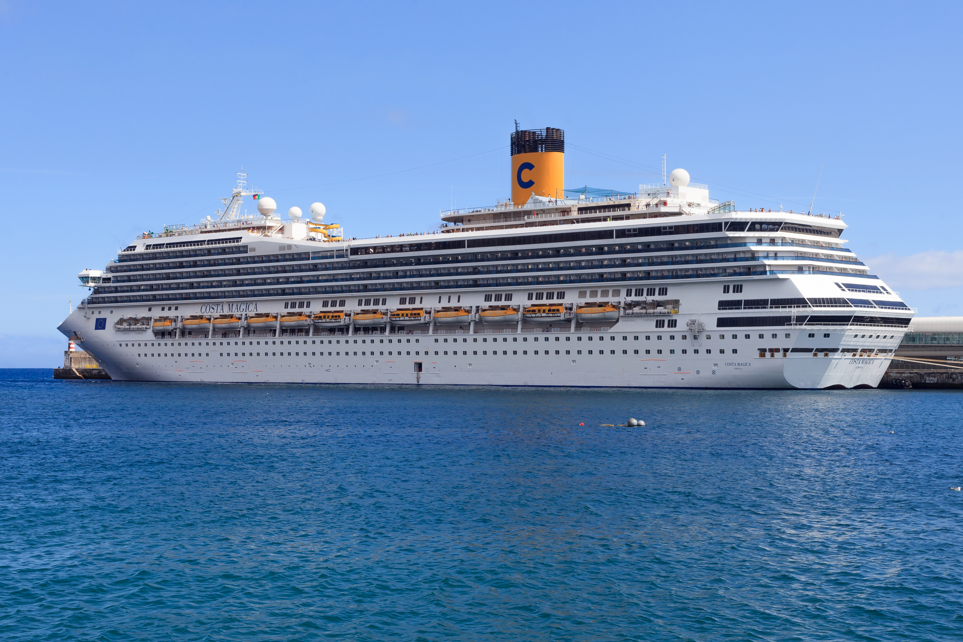 Boat Costa Magica. Funchal. Madeira. Portugal.